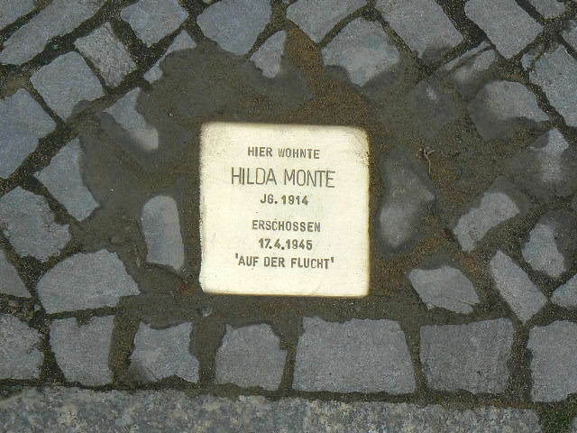 Stolperstein memorial plaque for Hilda Monte, pen name of Hilde Meisel, at her last known home address, Landhausstrasse 3, Berlin in the Charlottenburg-Wilmersdorf quarter. The plaque says, "Hilda Monte / lived here / b. 1914 / shot and killed / 4-17-1945 / 'on the run' ". These cobblestone-sized brass plaques by artist Gunter Demnig, commemorating the victims of Nazism, number over 22,000 (as of May 15, 2010) and can be found in more than 530 cities and towns in eight countries in Europe.